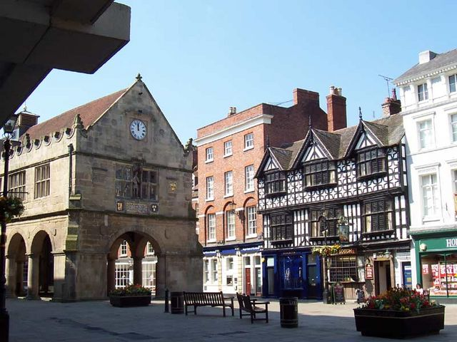 The square with the old markt hall of Shresbury, England.